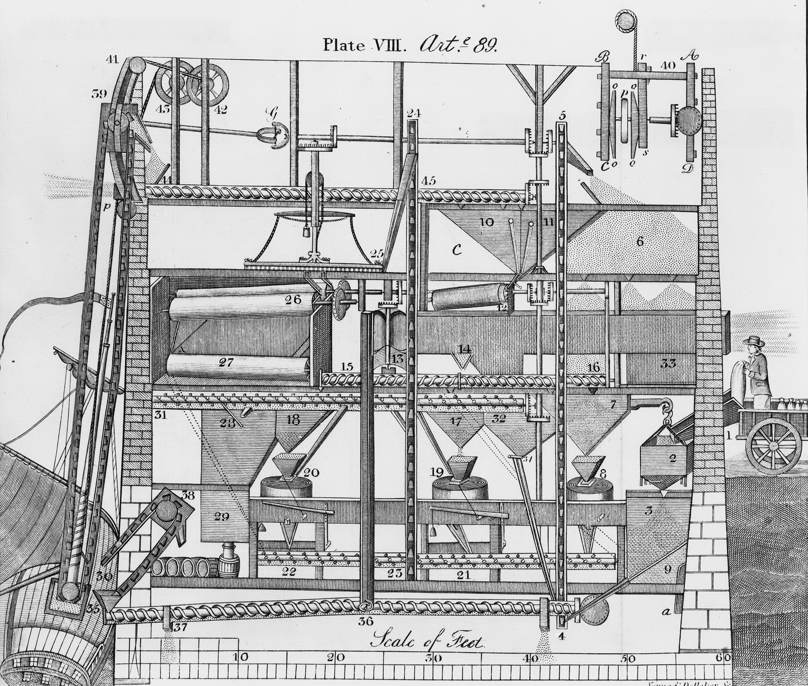 Automated mill for processing grain designed by American inventor Oliver Evans (1775-1819)